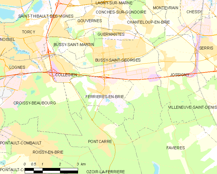 Map of French municipality Bussy-Saint-Georges